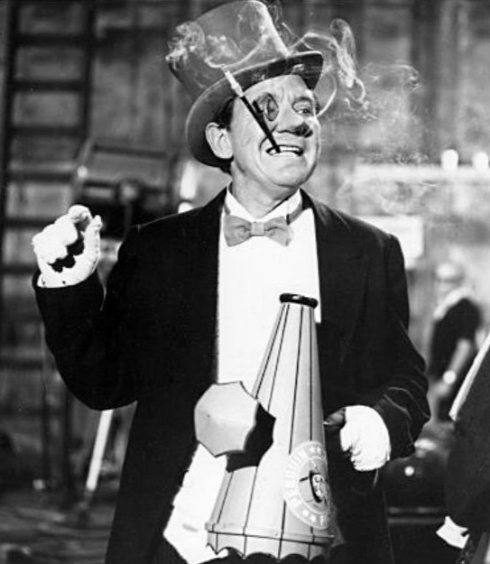 Photo of Burgess Meredith as the Penguin from the television series Batman.